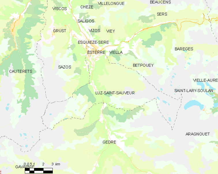 Map of French municipality